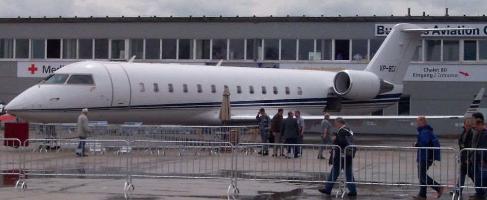 Bombardier CRJ 200